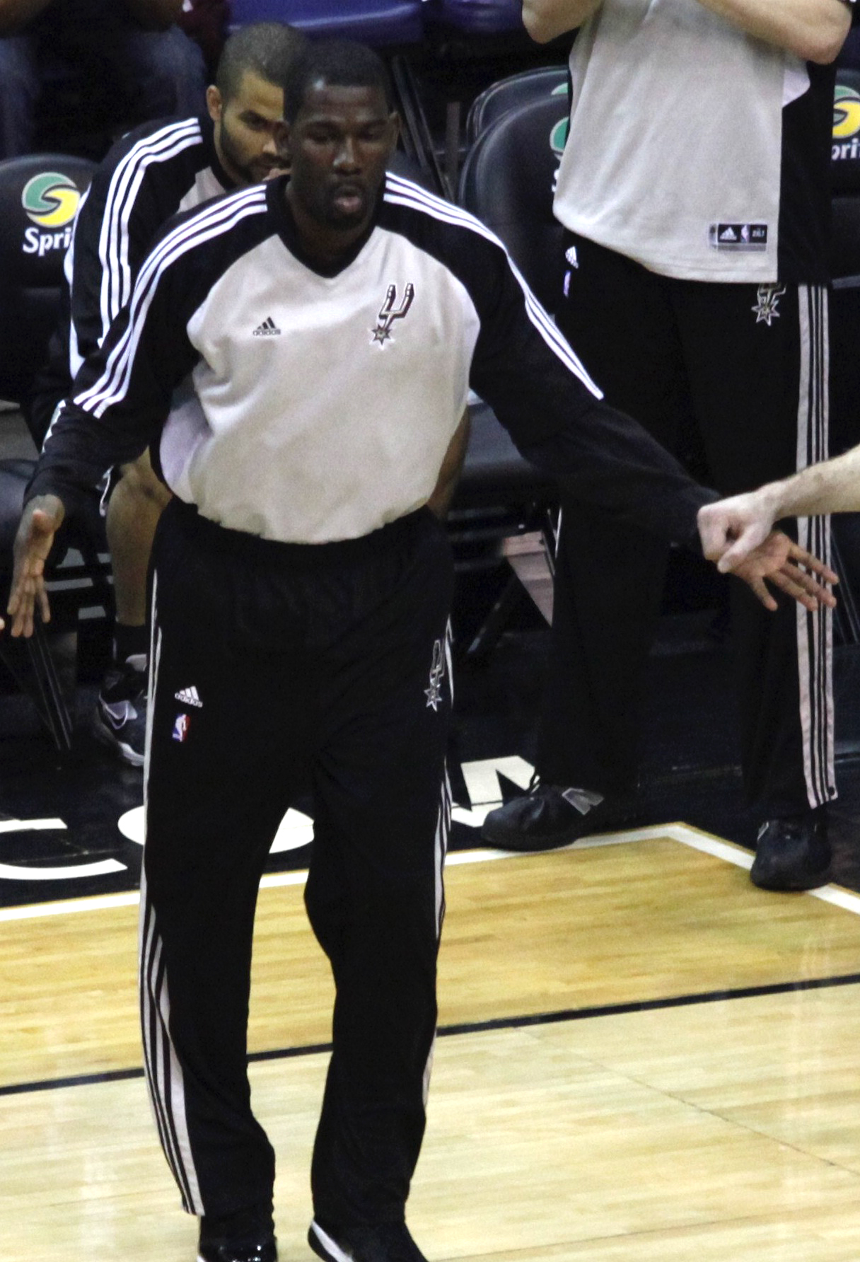 Michael Finley coming out for pregame introductions before game against Washington Wizards at the Verizon Center in Washington, D.C.